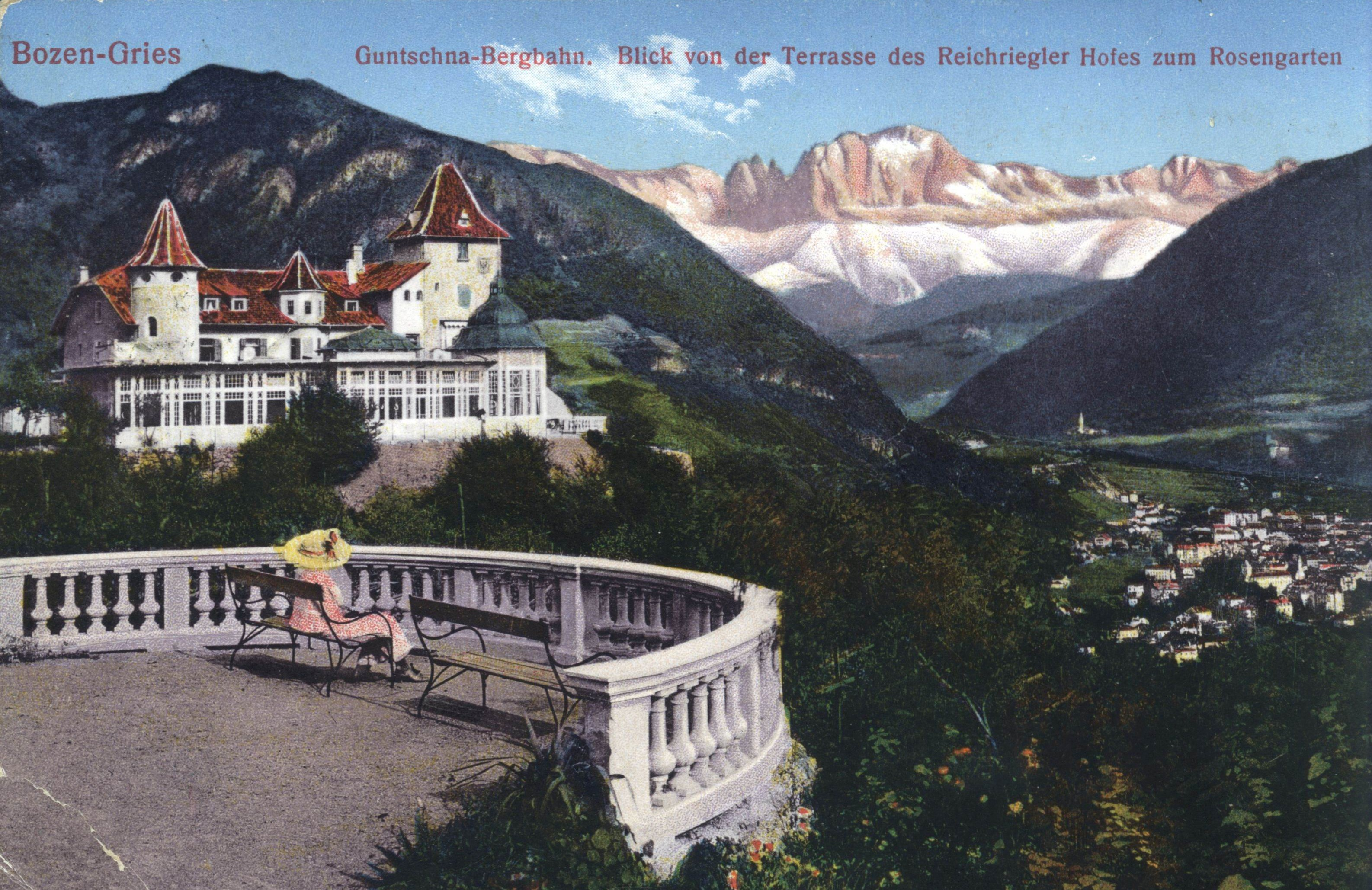 The Reichrieglerhof on the Guntschnaberg near Bozen-Gries in 1914